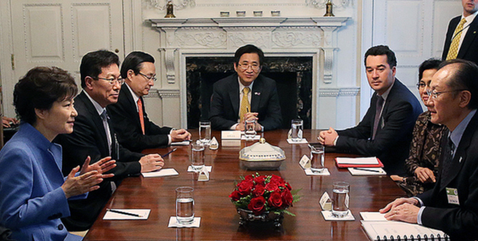 President Park Geun-hye (center right) hosts a meeting at the President's Guest House, Washington, DC, in 2013.